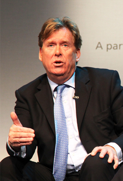 Plenary speaker, Chair